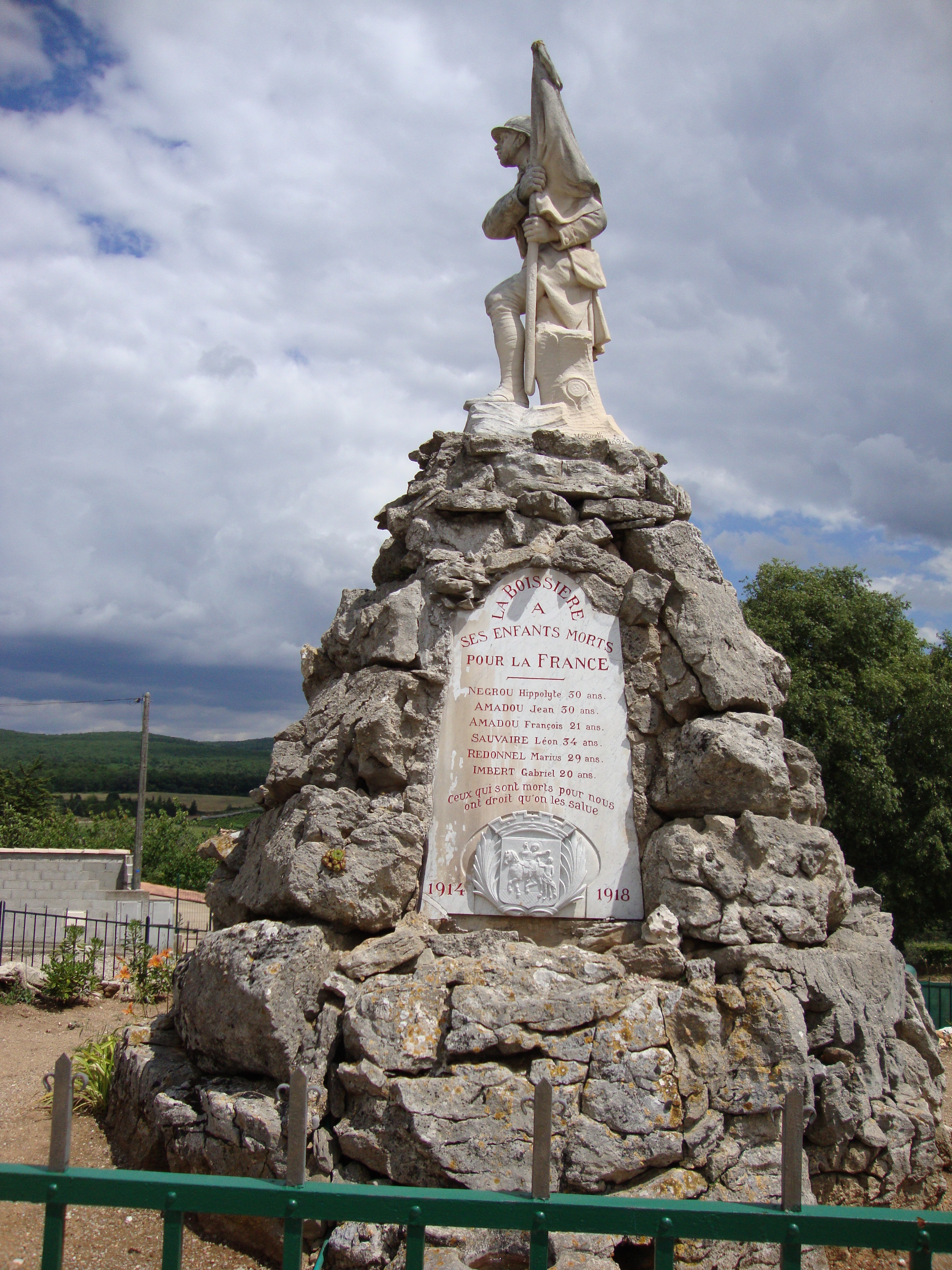 La Boissière (Hérault, Fr) war memorial